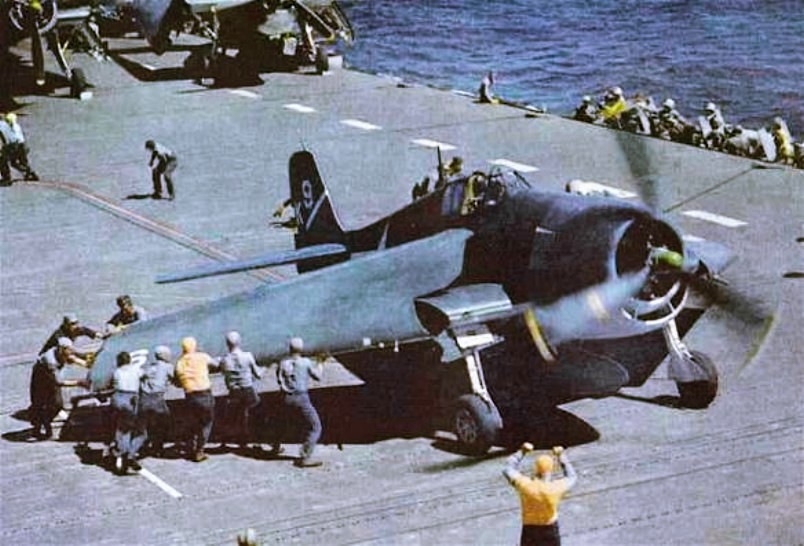 PictionID:41546386 - Title:Ray Wagner Collection Image - Catalog:16_000464 Grumman F6F-3 USS Yorktown 1943-44 - Filename:16_000464 Grumman F6F-3 USS Yorktown 1943-44.tif - - Image from the Ray Wagner Collection. Ray Wagner was Archivist at the San Diego Air and Space Museum for several years and is an author of several books on aviation --- ---Please Tag these images so that the information can be permanently stored with the digital file.---Repository: San Diego Air and Space Museum